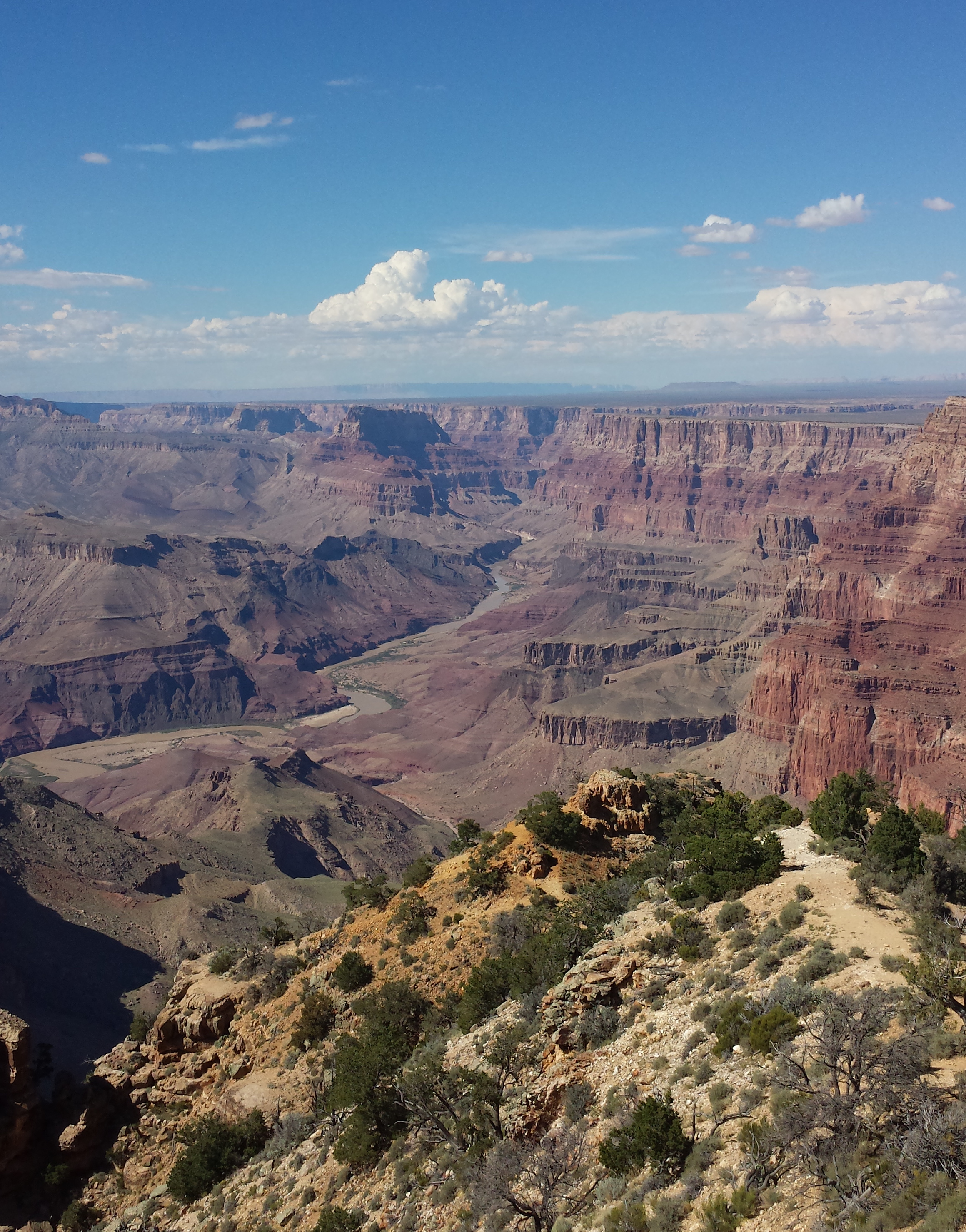 Grand Canyon from South Rim